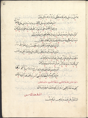 Bosnian language dictionary written in Arebica by Bosniak author Muhamed Hevaji Uskufi Bosnevi in 1631.